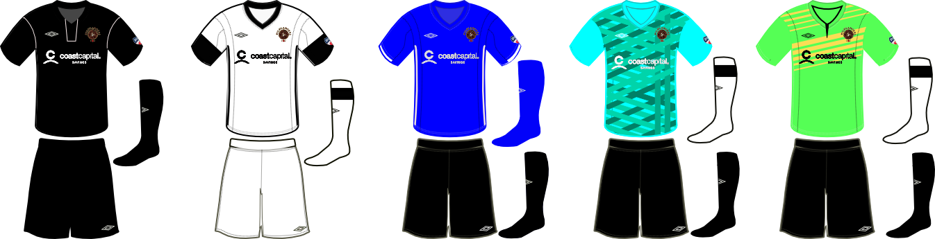 Highlanders kits, 2014-2015